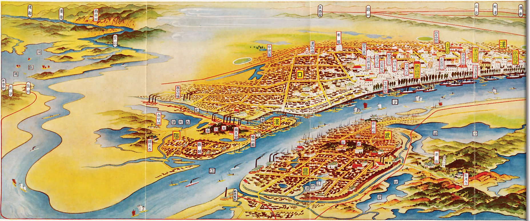 A map of Hankou attached to a message of Japanese Invading Army in Central China